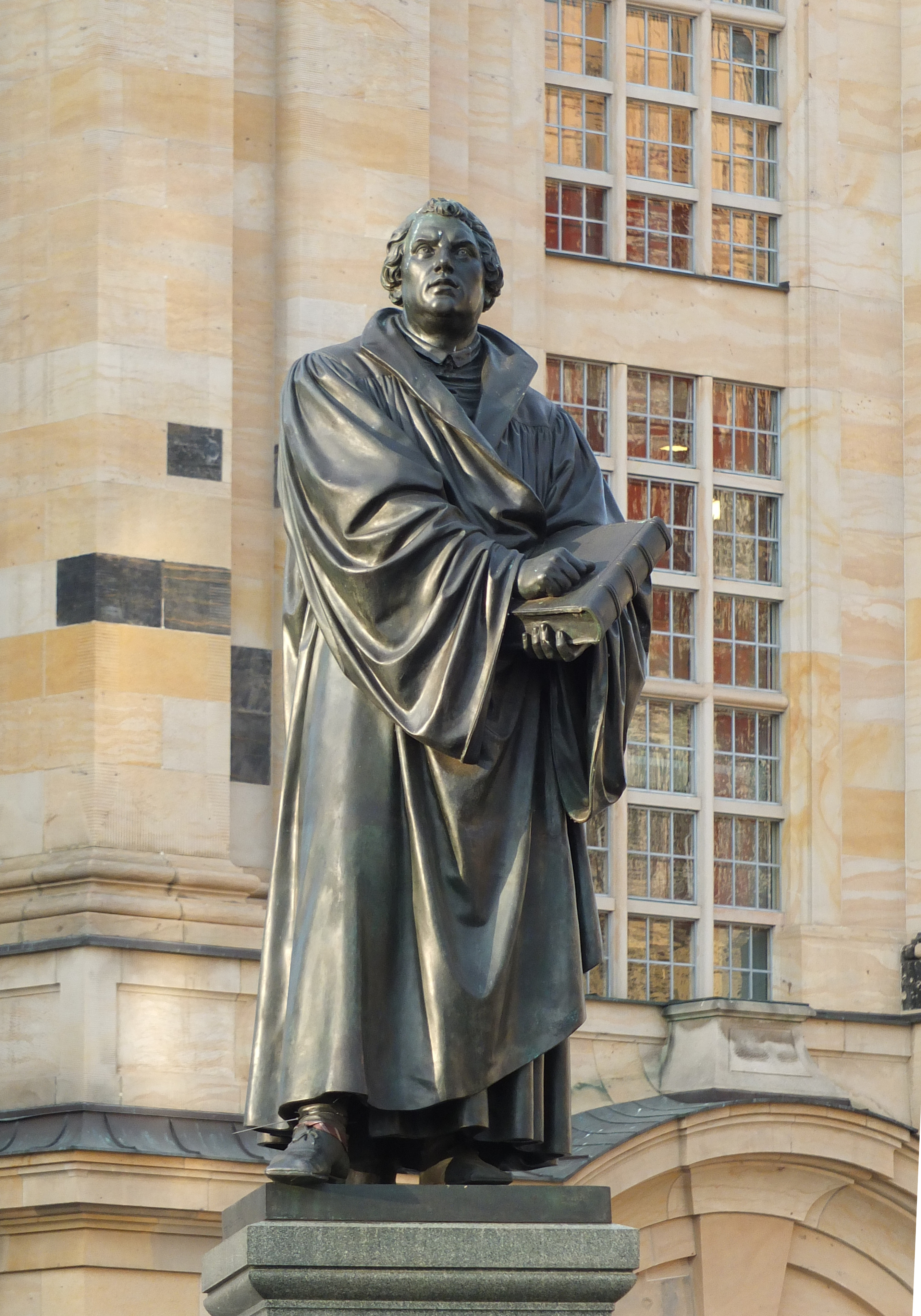 Bronze statue of Martin Luther, in front of the Frauenkirche in Dresden, by Adolf von Donndorf.